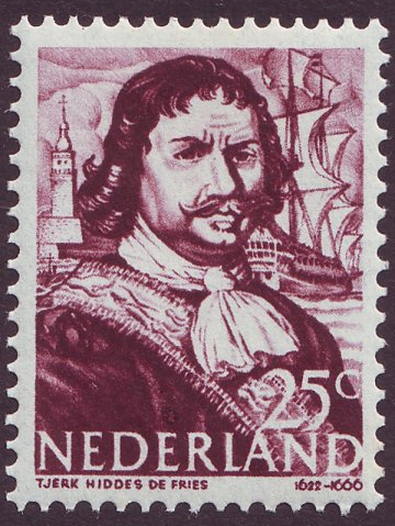 Admiral Tjerk Hiddes de Fries (or Tjerk Hiddes de Vries) on a stamp from 1944.